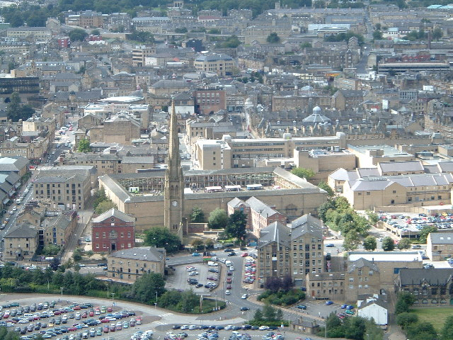 The Piece Hall, Halifax looking from Beacon Hill. The Piece Hall in Halifax is clearly seen from the top of Beacon Hill.